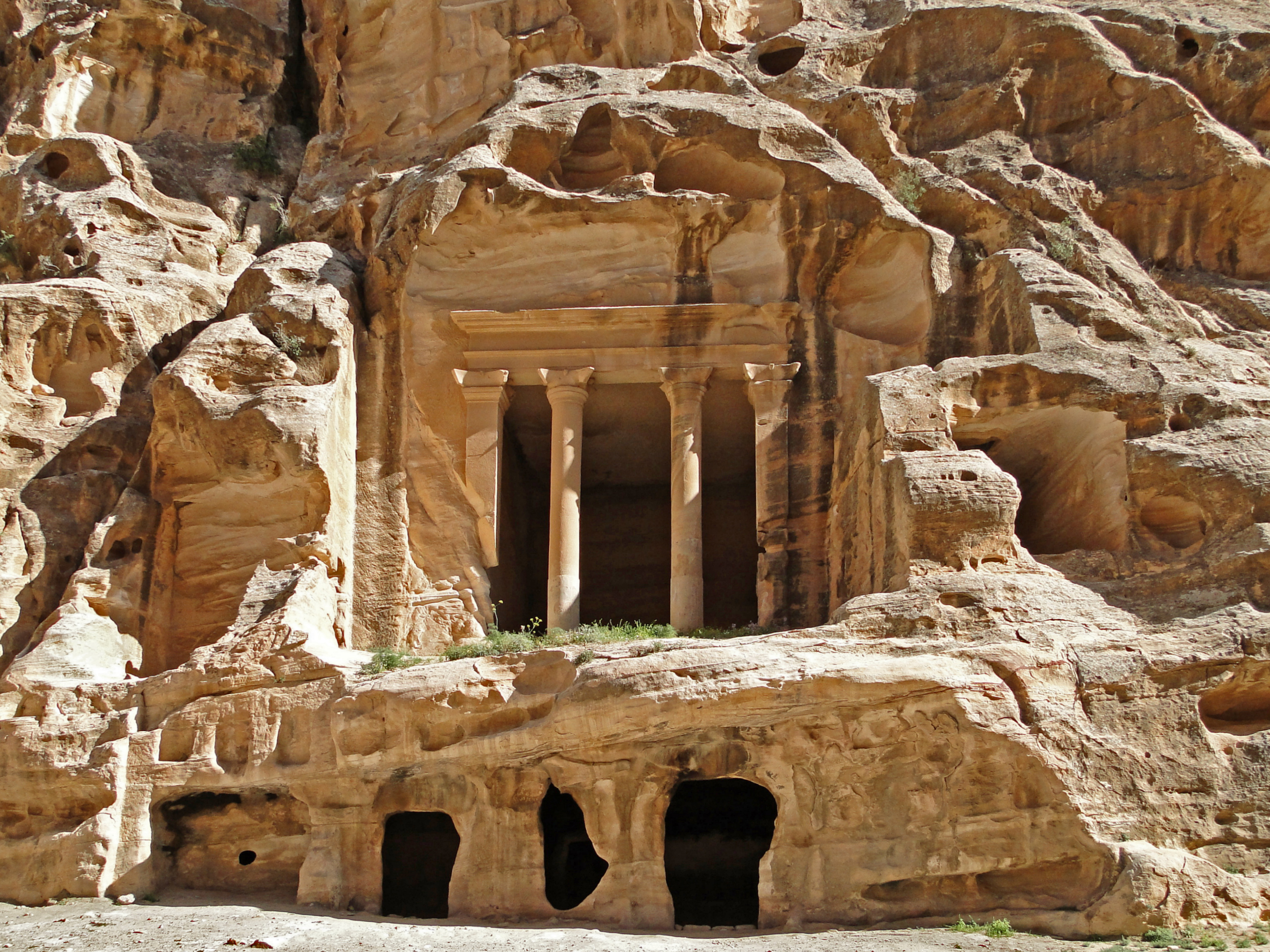 A triclinium at Siq al-Berid (Little Petra), Jordan